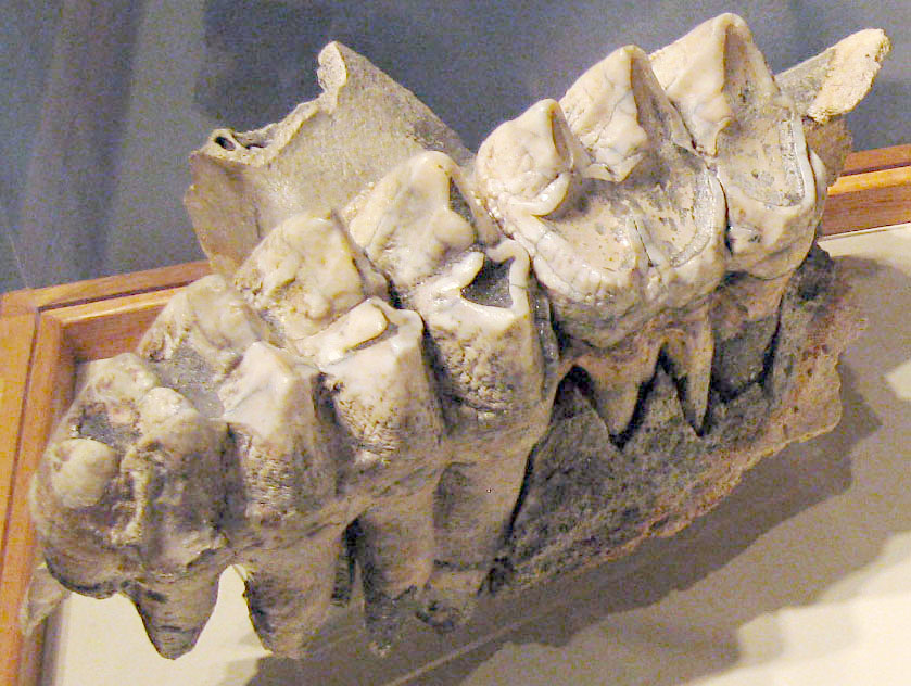 Right maxilla with 2nd and 3rd molars of American Mastodon Mammut americanum, on display at the State Museum of Pennsylvania. Late Pleistocene in age. From Columbia County. Specimen UF 40001